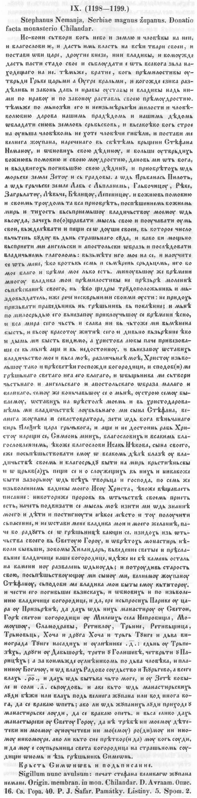 Photograph of the edict of Stefan Nemanja